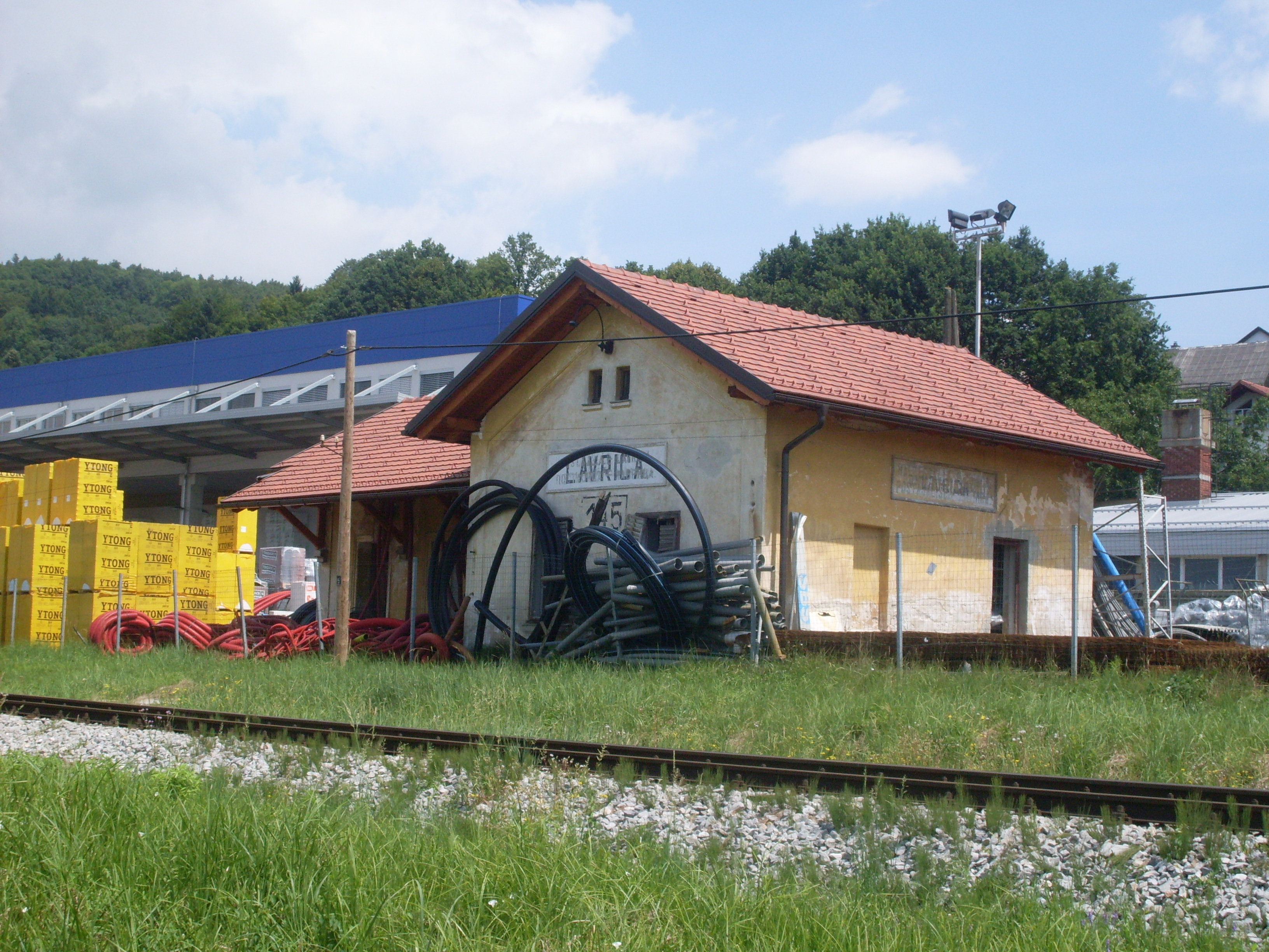 Former railway halt in Lavrica